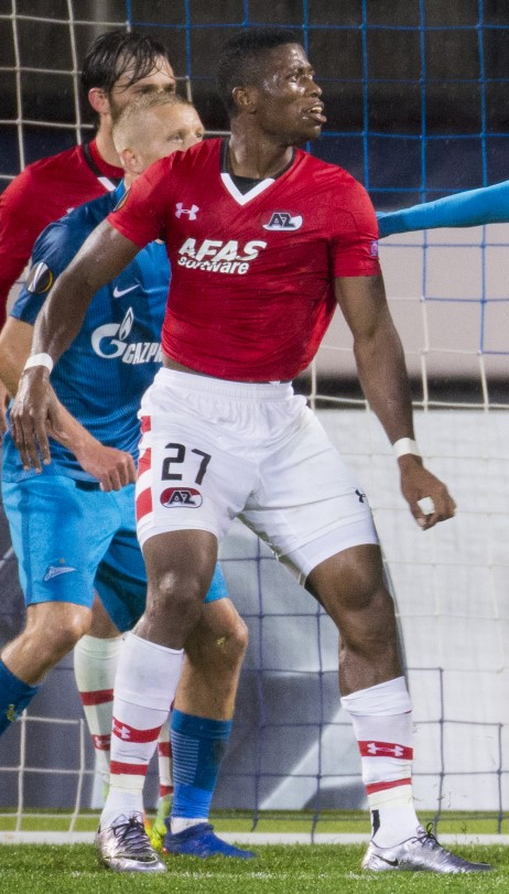 Fred Friday